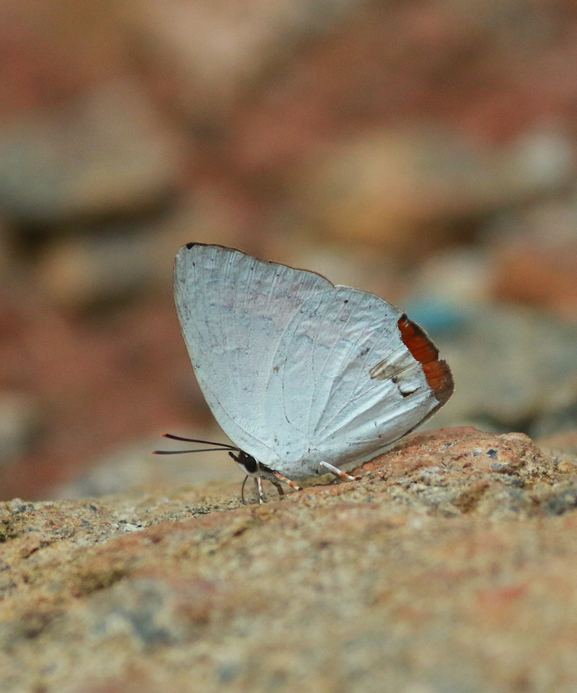 indian sunbeam,Curetis thetis